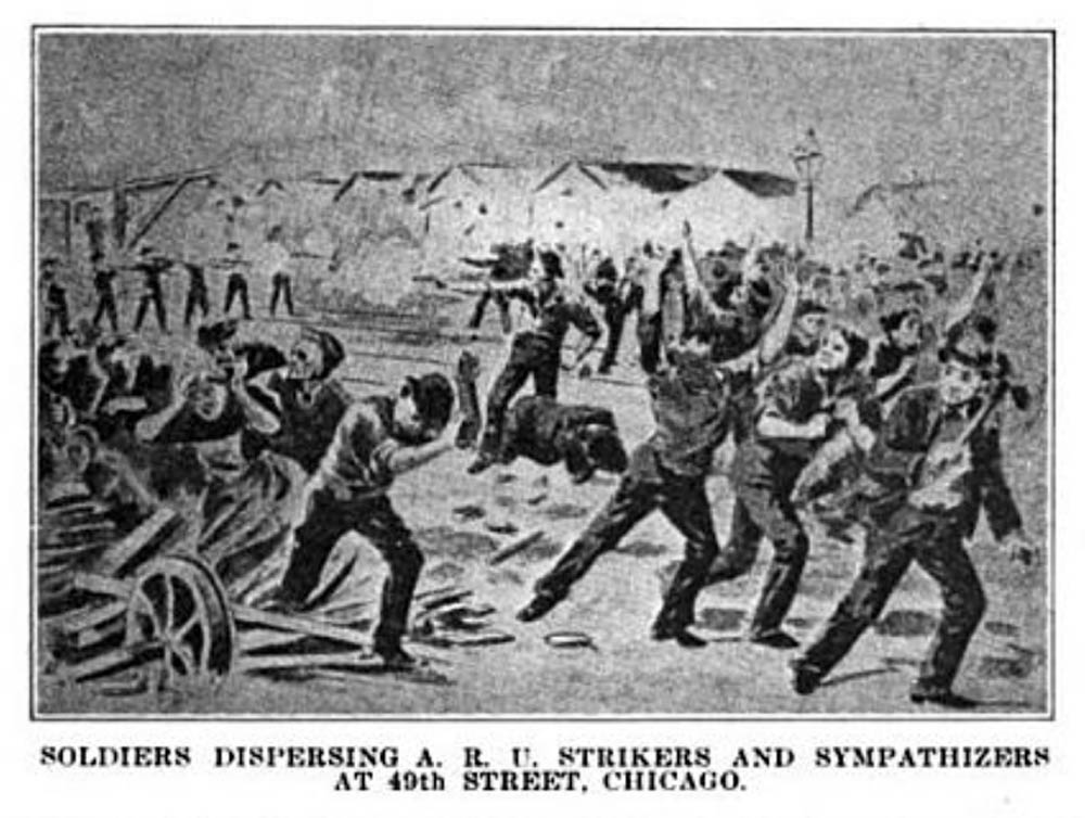 Drawing, 1894 strike, caption: SOLDIERS DISPERSING A. R. U. STRIKERS AND SYMPATHIZERS AT 49TH STREET, CHICAGO